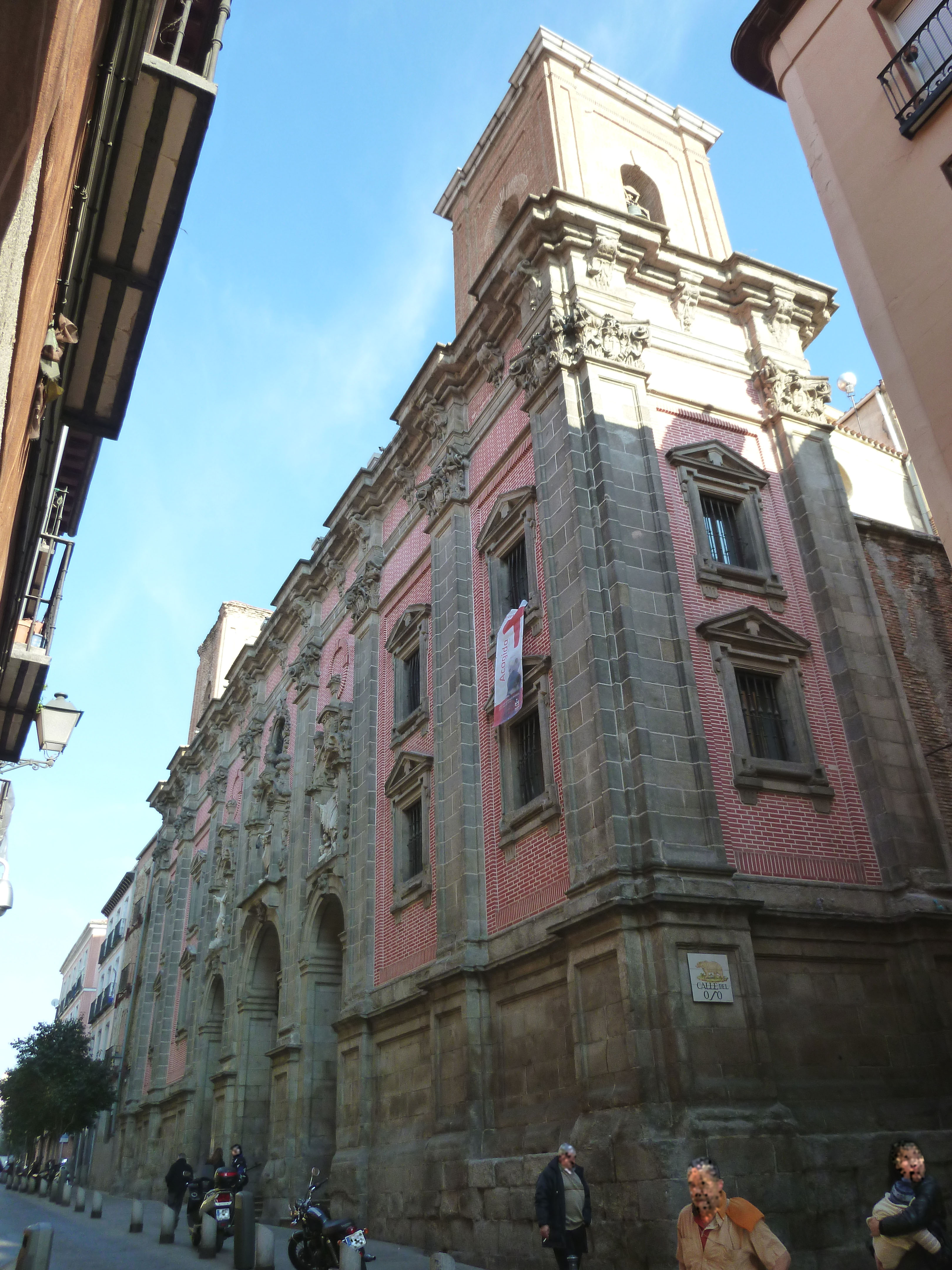 Sts. Emilian and Cajetan Church in Madrid (Spain).